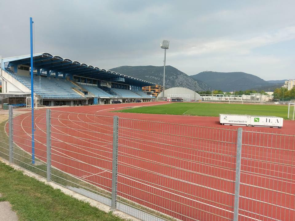 Football Stadium in Nova Gorica, used by ND Gorica of the Slovenian PrvaLiga